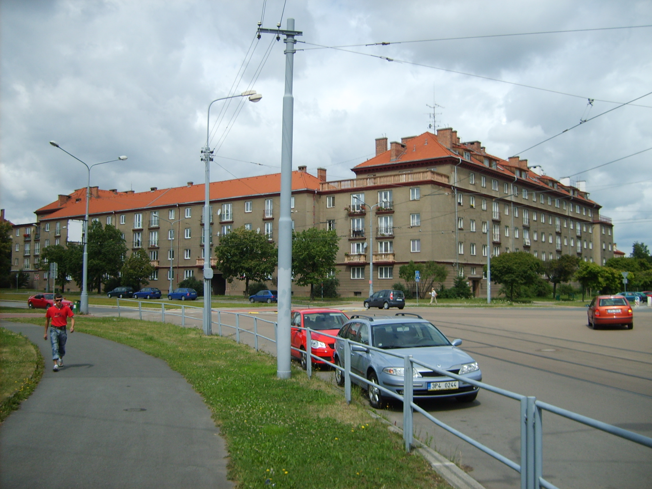 50´s style housing development in Plzeň-Slovany.